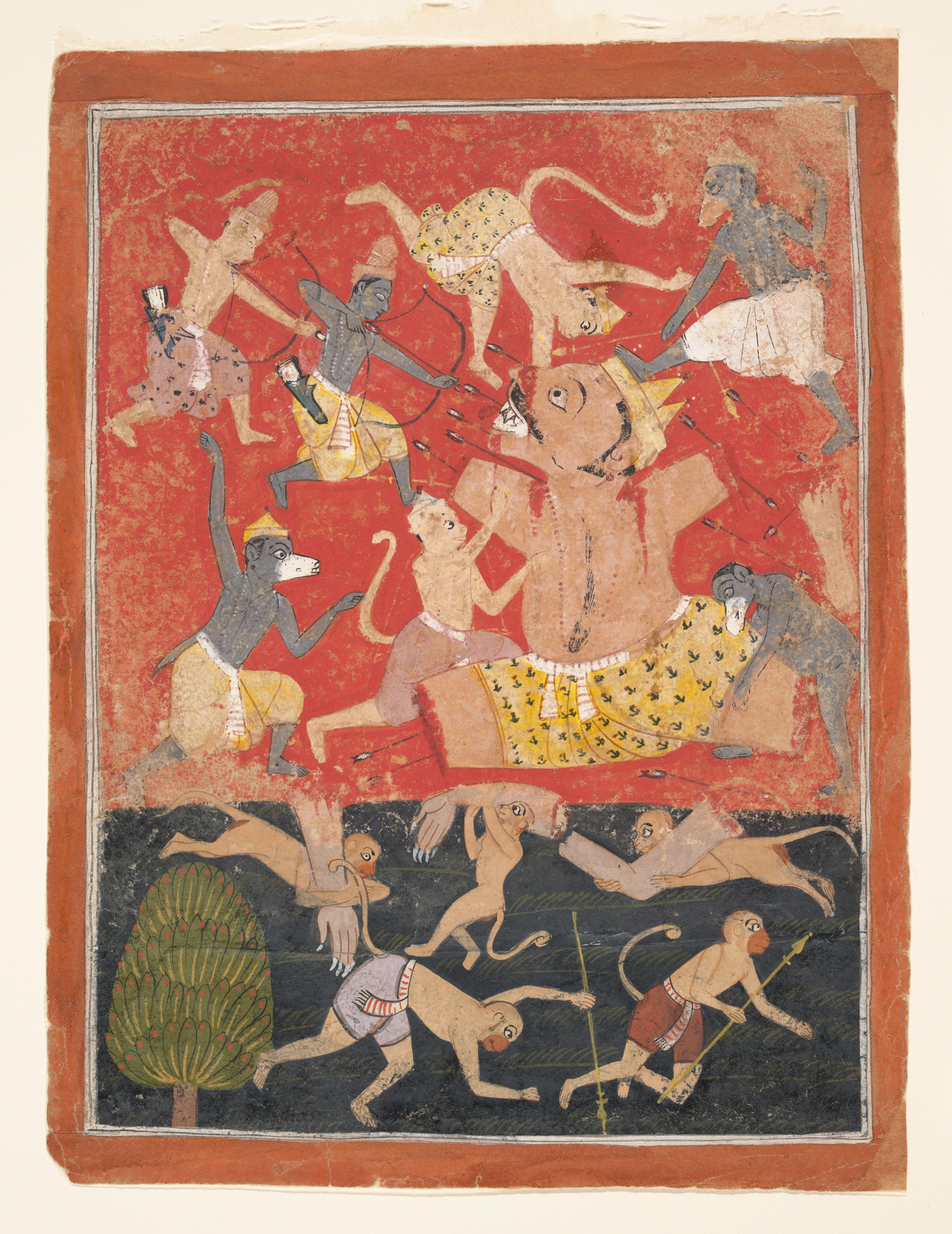 According to the Ramayana, Kumbhakarna, the terrifying giant and brother of Ravana, was causing great damage to the monkey army when Rama and Lakshmana entered the battle. Using magical arrows of great power, Rama severed Kumbhakarna's limbs and filled his mouth with pointed steel shafts. The pathos of the demon's defeat is emphasized by his dismembered body parts being carried away by the bear and monkey warriors. Compared to the Mughal depiction The Awakening of the Demon Kumbhakarna, which shows the giant sleeping, this Malwa portrayal focuses on his violent and bloody demise. The brilliant red and black color fields and the spatial ambiguity are drawn from earlier Hindu painting traditions of Malwa, where the Mughal style had little impact.